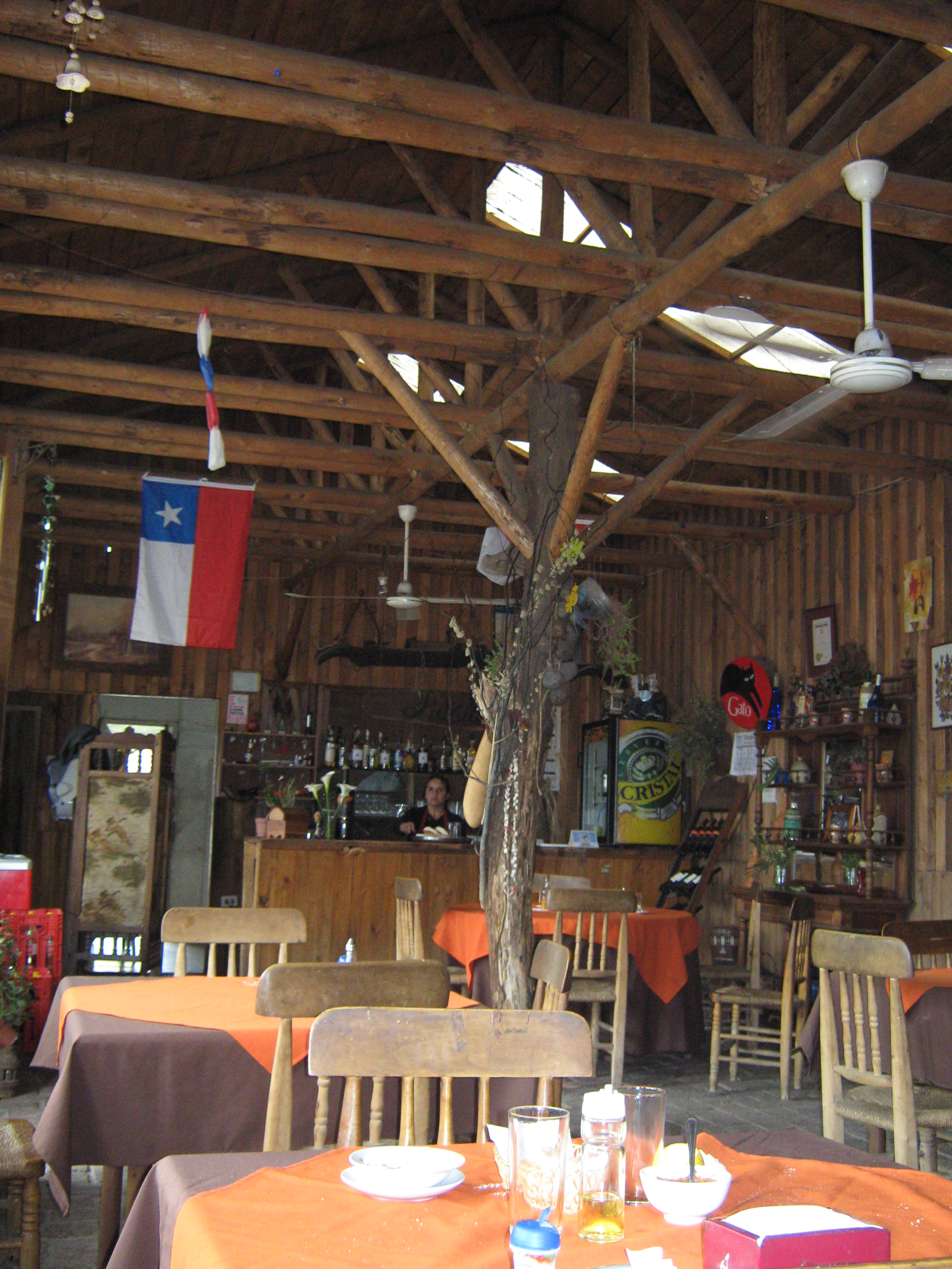 on the road restaurant Pueblito de Doñihue